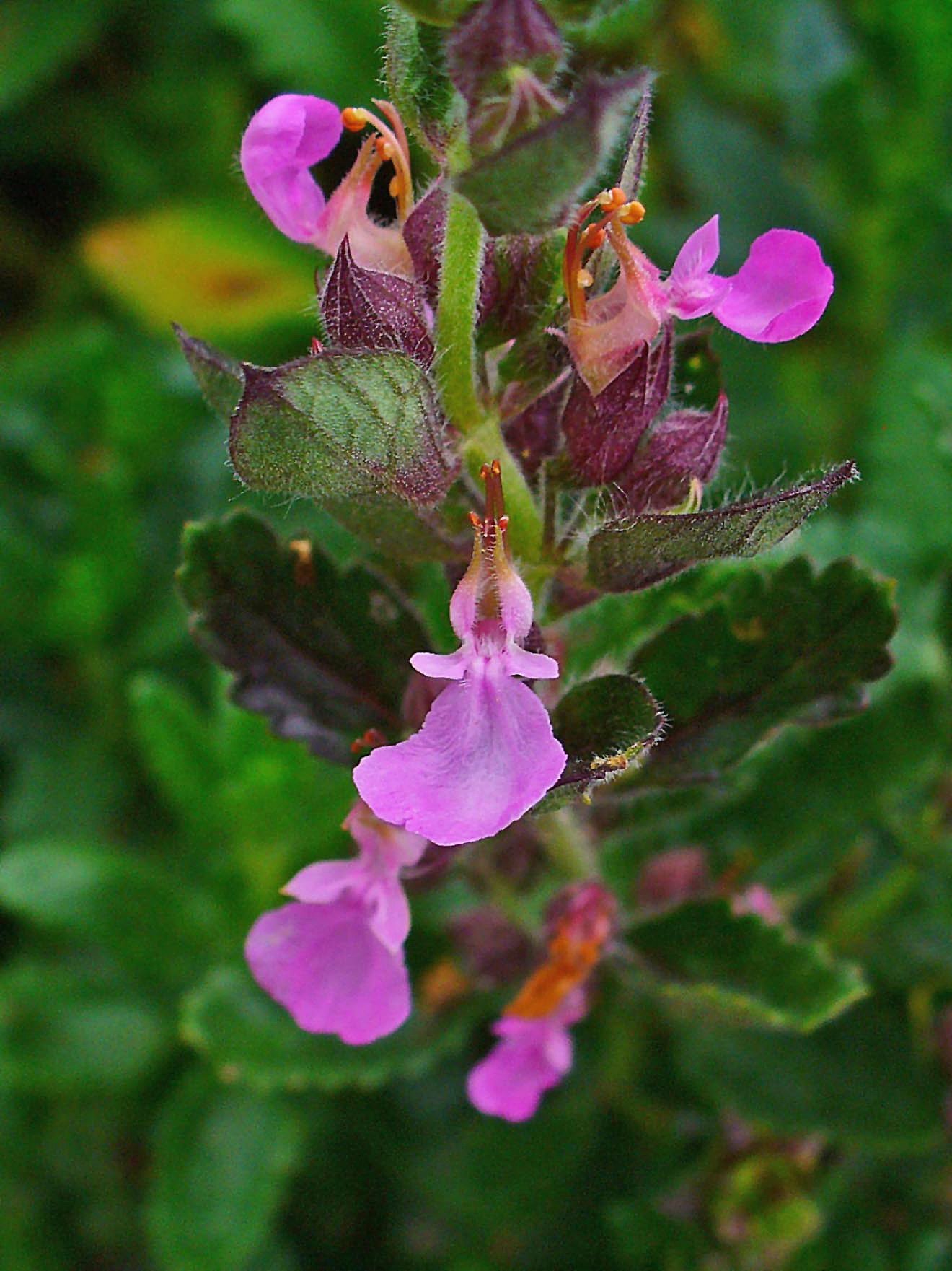 Teucrium chamaedrys, Lamiaceae, Wall Germander, flowers.